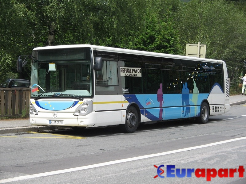 Chamonix has an regular bus service throughout the year. The Lift Pass allows free use of the buses, likewise the tourist card issued when you stay at an apartment, hotel or camping site.